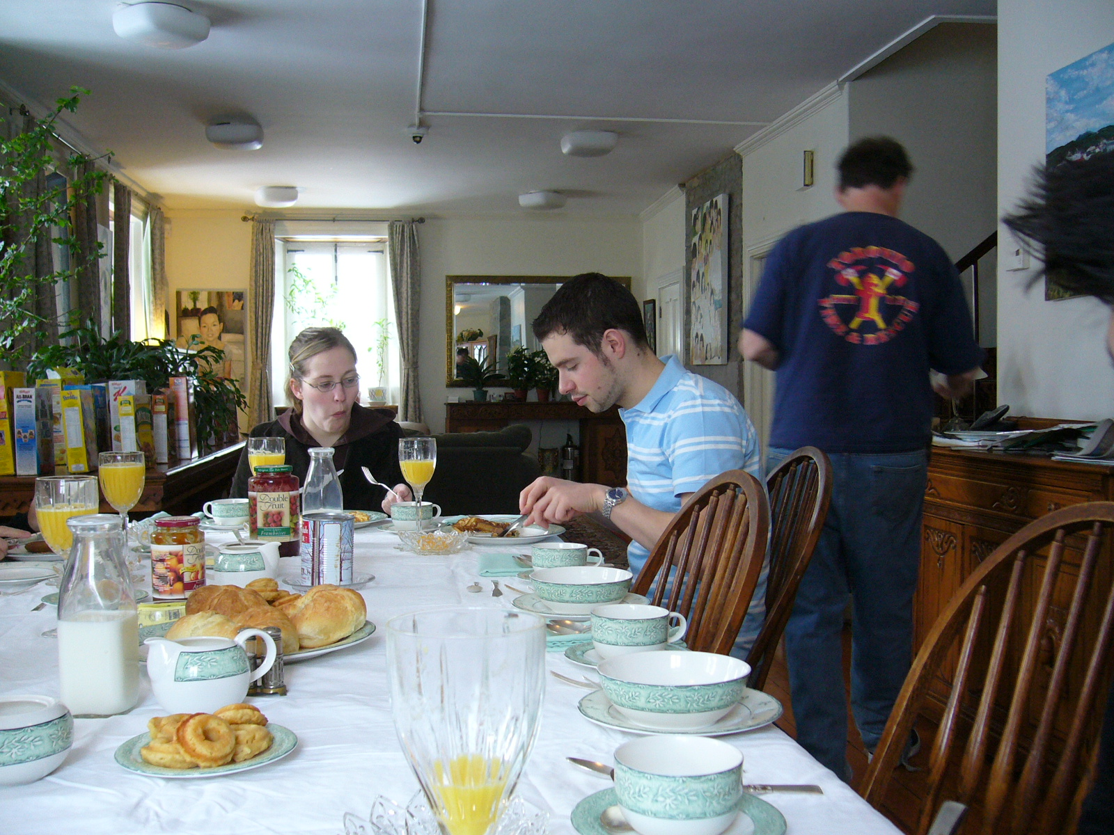 Bed and breakfast